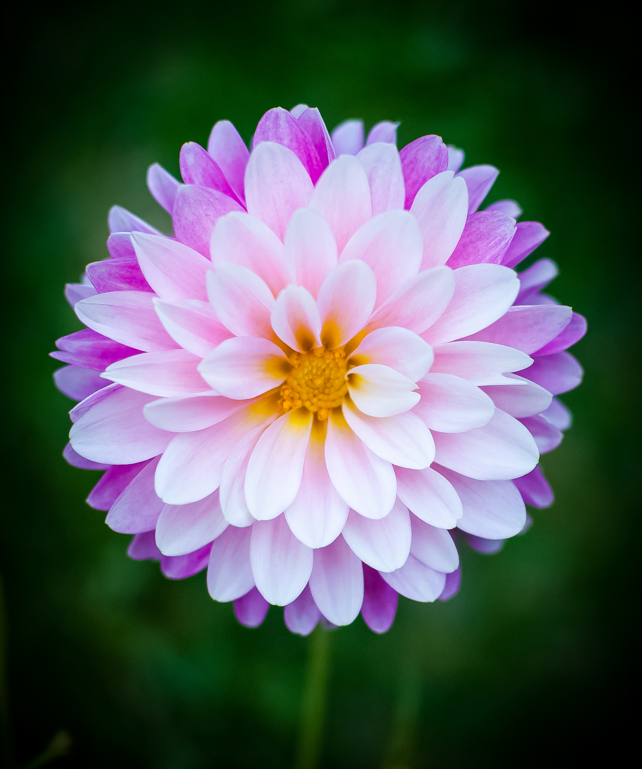 Dahlia bloom with light pink and purple coloring